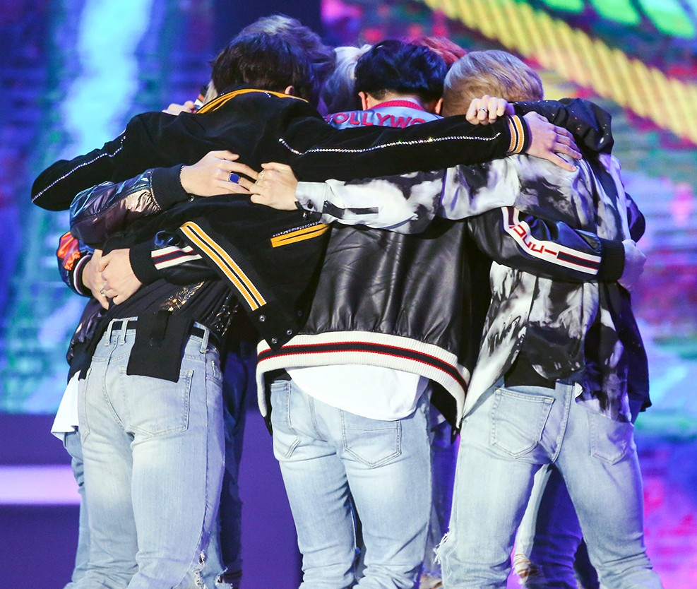 BTS at Melon Music Awards, 2 December 2017